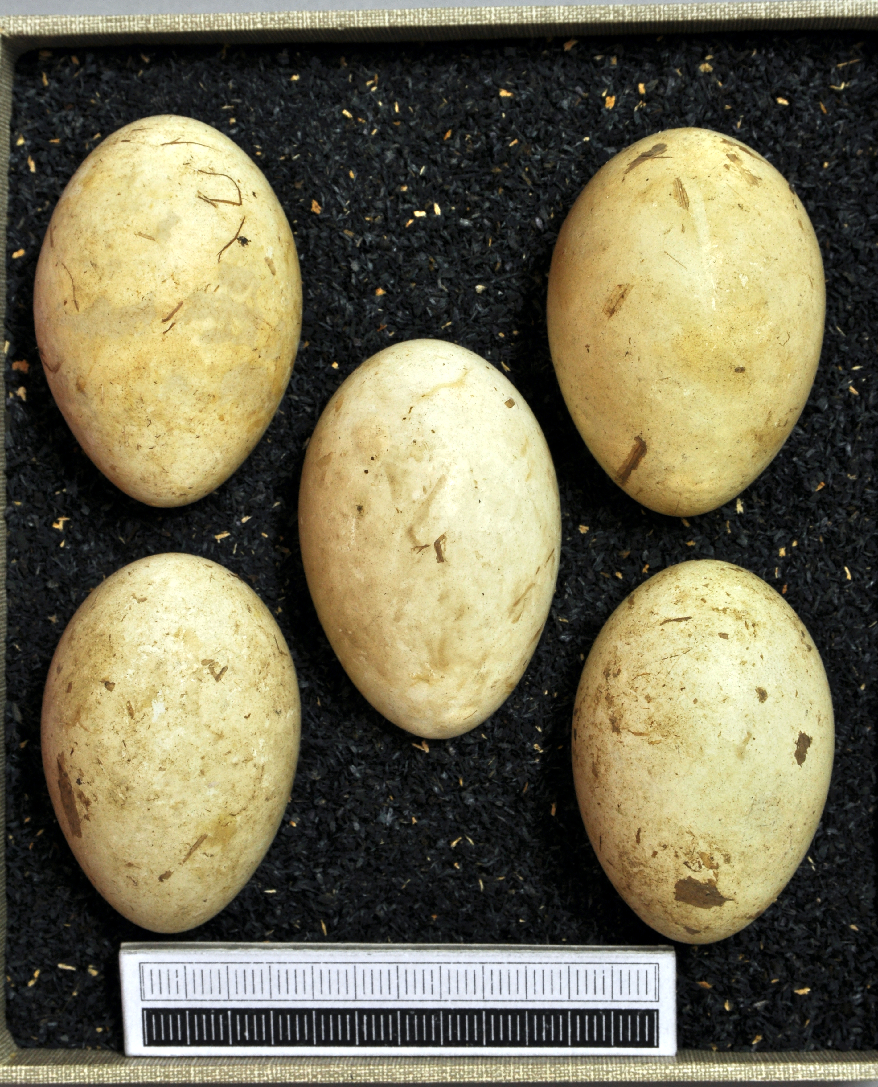 Horned grebe Podiceps auritus , egg, Coll. Museum Wiesbaden